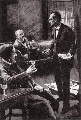 Arthur Conan Doyle, His Last Bow (1917), Illustration by Alfred Gilbert, in The Strand Magazine